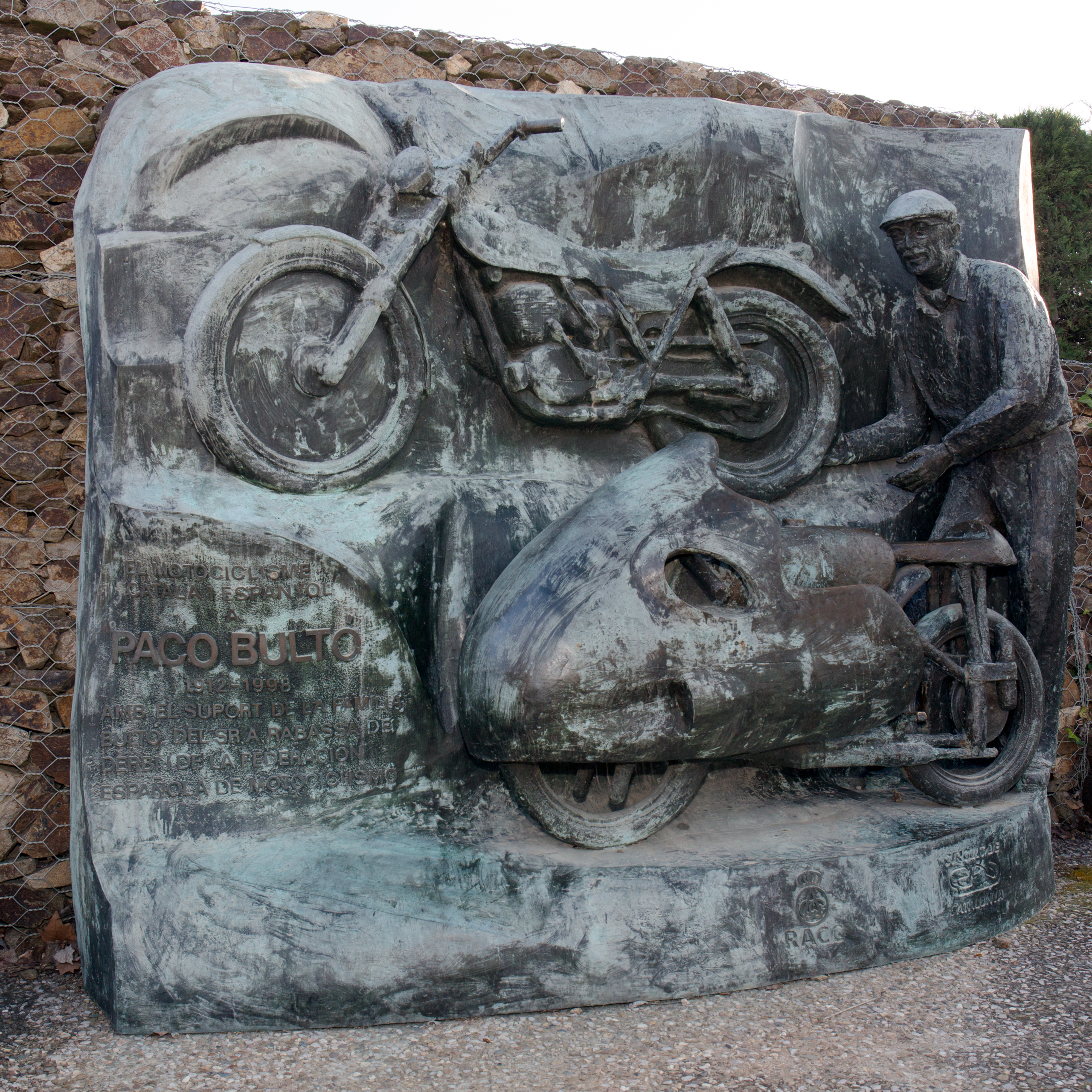 Monument of Paco Bultó (founder of Bultaco, and co-founder of Montesa motorcycle companies) in Catalonia Circuit. The motorcycles are a 1972 Bultaco Sherpa T (up) and a 1956 Montesa Sprint 125cc (down).